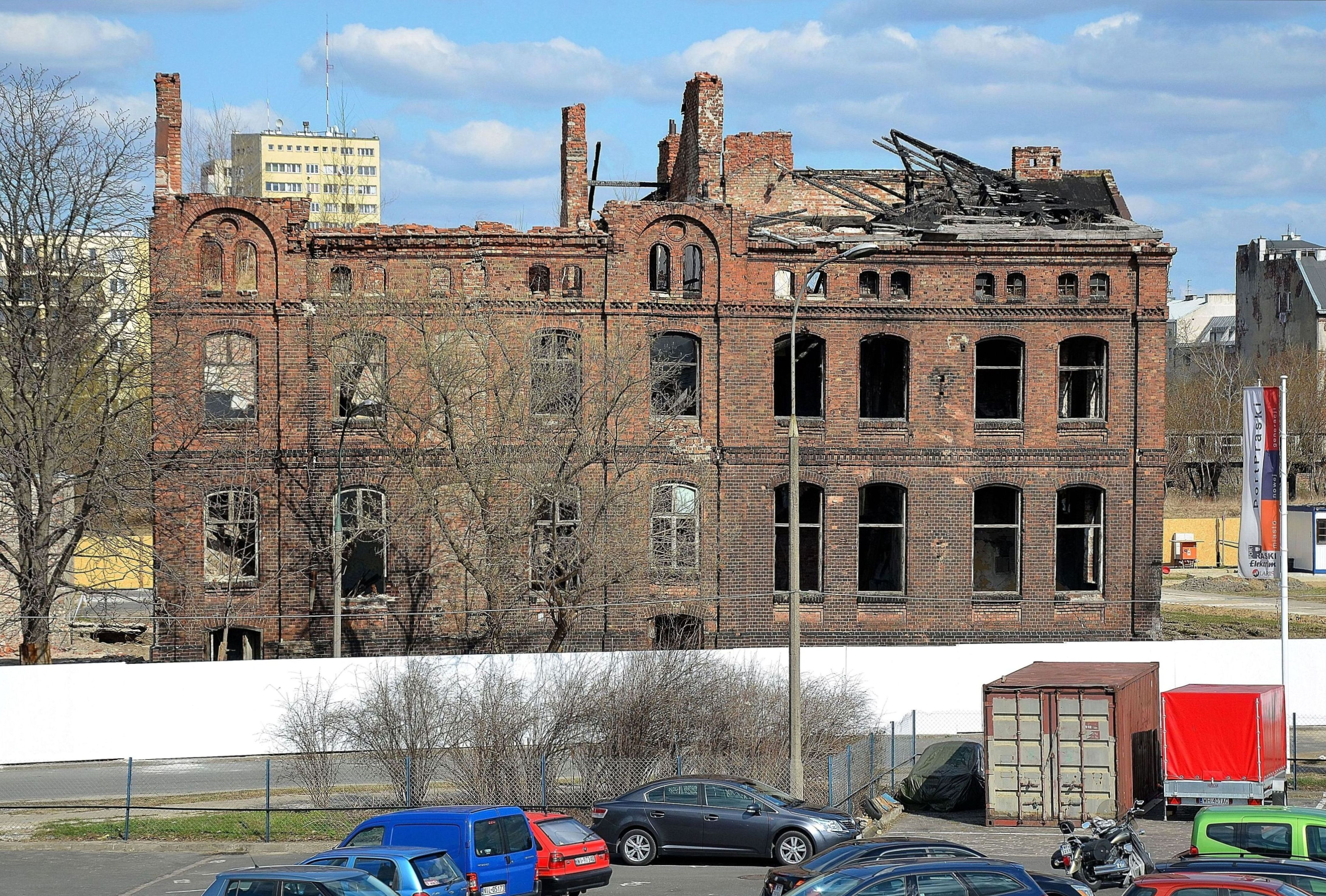 Former Zagórny and Ogórkiewicz Works at 6/8 Krowia Street in Warsaw before demolition in 2012